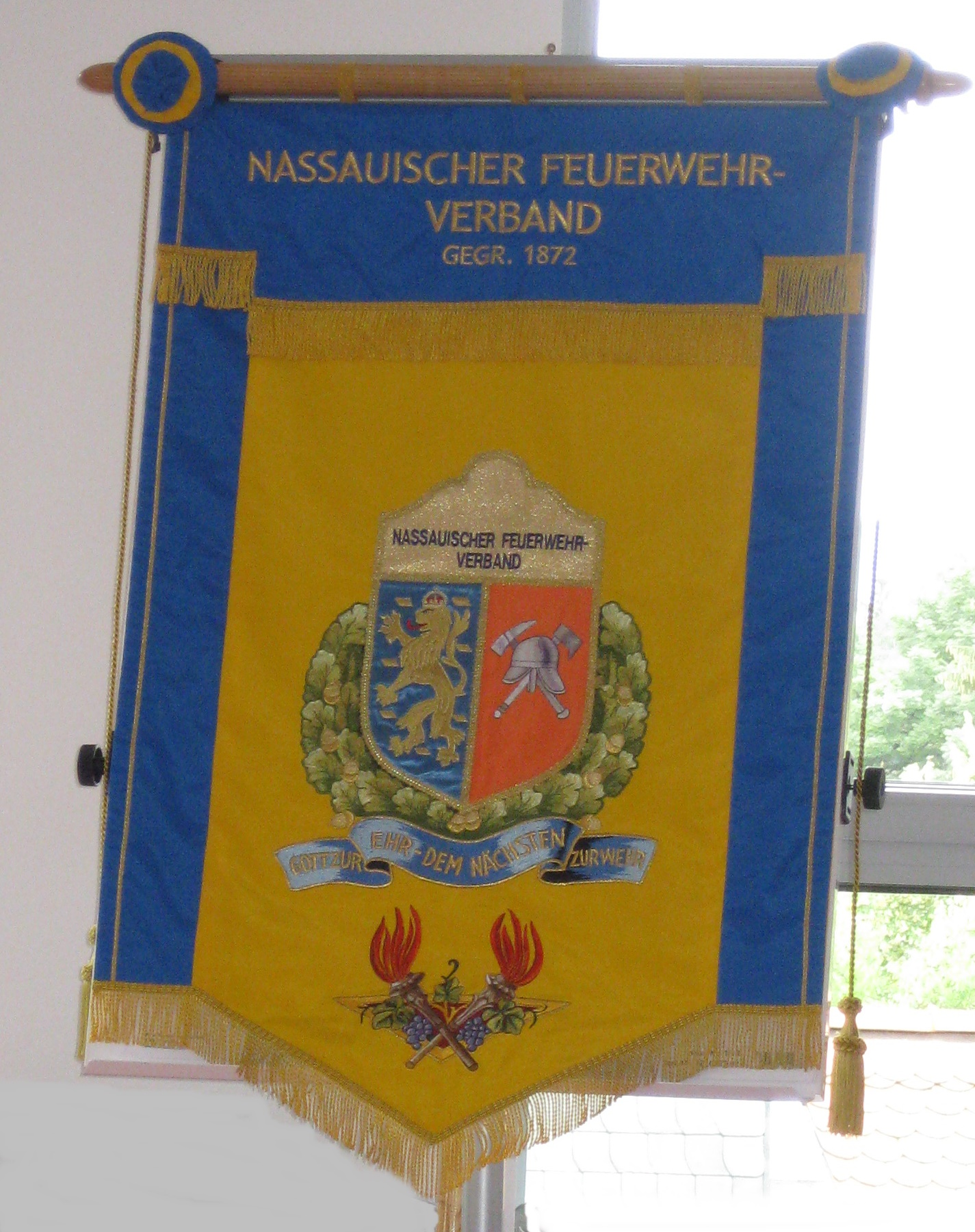 Verbandsfahne des Nassauischen Feuerwehrverbandes